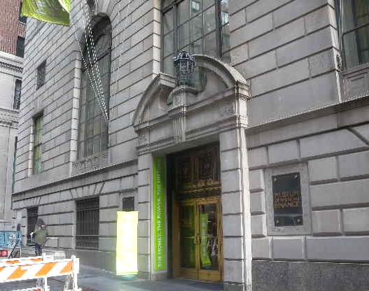 Looking north from Wall Street at Museum on a cloudy morning.